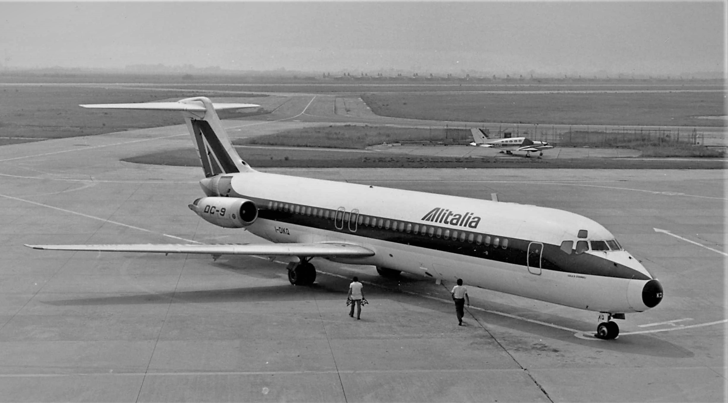 Alitalia McDonnell Douglas DC-9-32, I-DIKQ, c/n 47227/334, “Isola di Stromboli” delivered to Alitalia in 1968-06-29. In 1978-12-23 at 00.39 local time with flight number AZ 4128 on route from Rome Fiumicino to Palermo Punta Raisi crashed in the sea before landing on the runway 21.